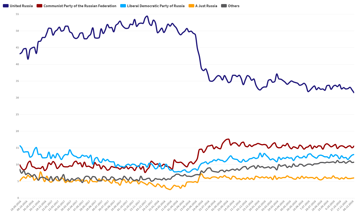 Shows opinion polls for UR, CPRF, LDPR, JR and others. Between 2016 and December 2019.